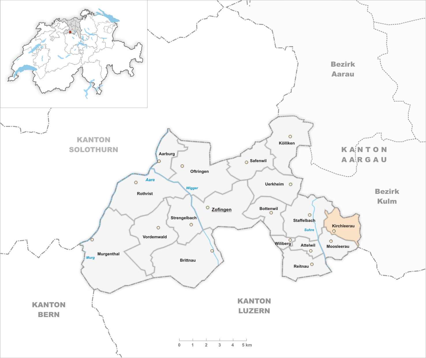 Municipality Kirchleerau